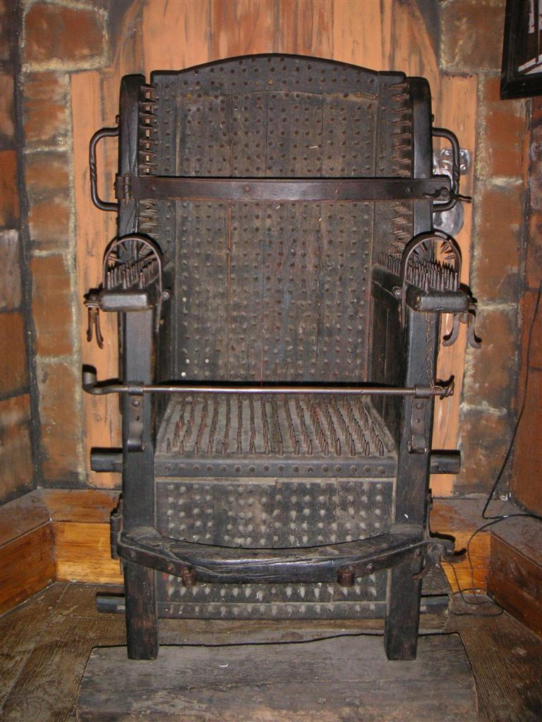 Displayed at the Torture Museum in Amsterdam